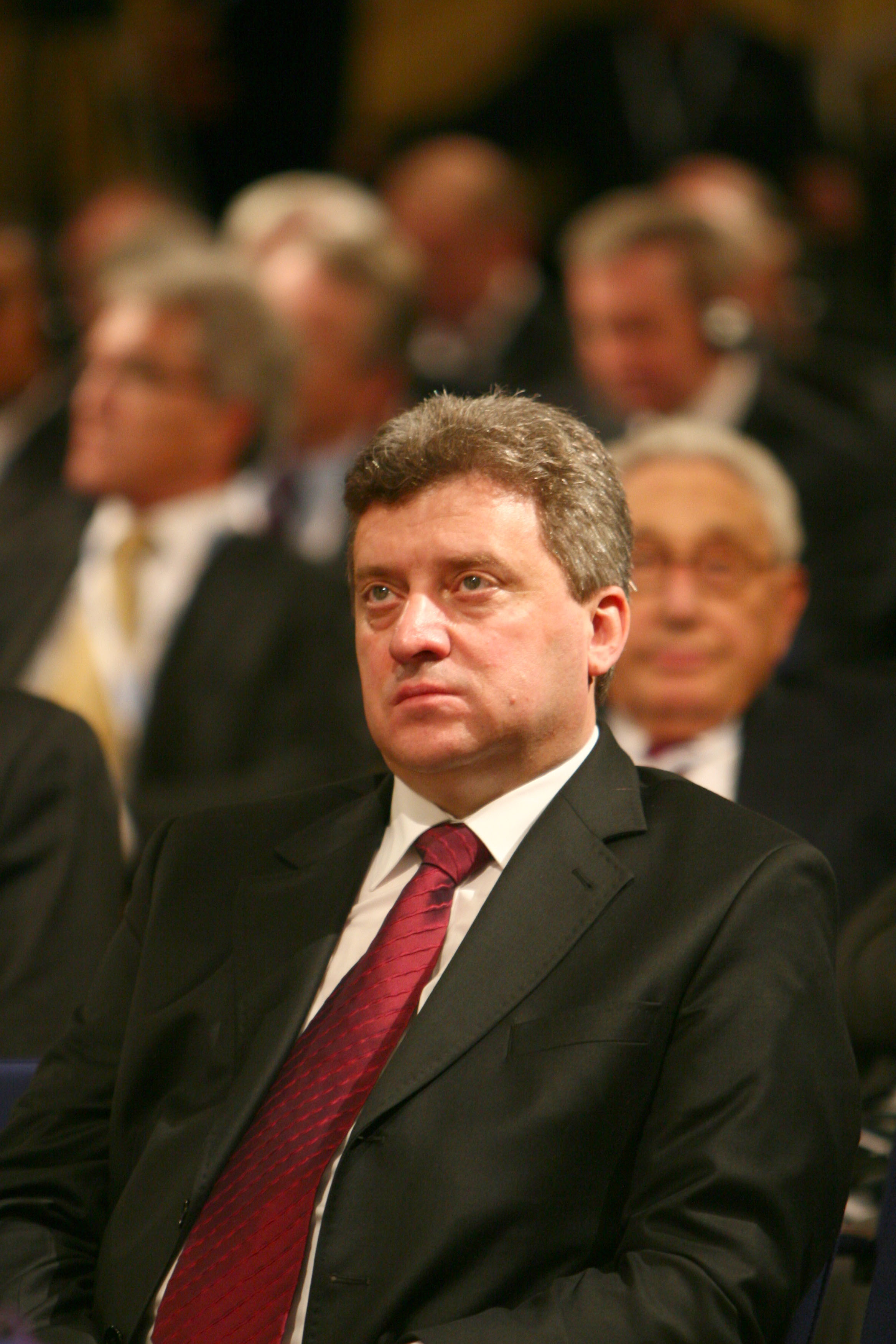 46th Munich Security Conference 2010: Dr. Gjorge Ivanov, President, Macedonia.